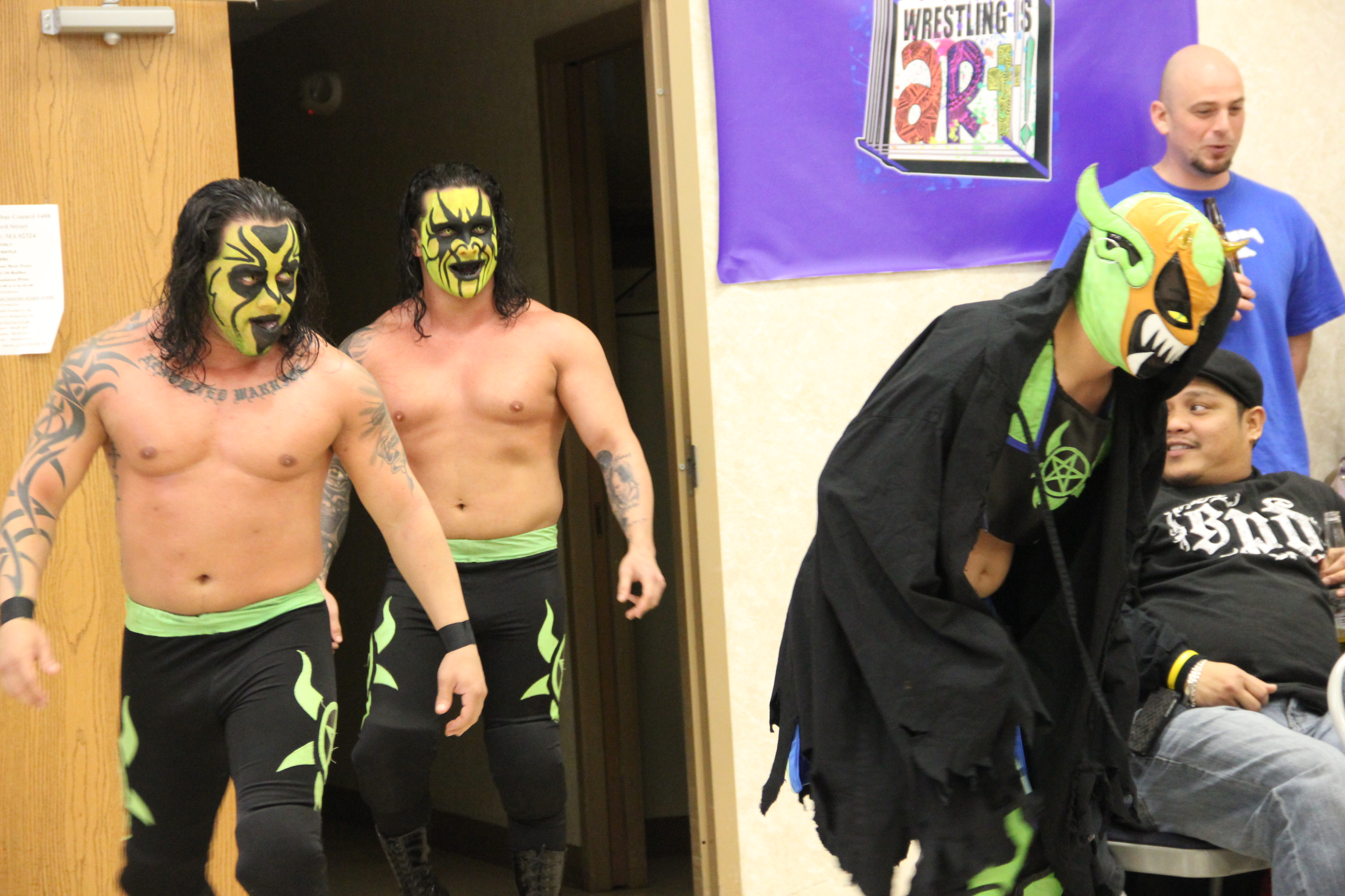 Professional wrestlers Kobald, Kodama and Obariyon at a Wrestling is Art event.